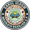 Darululoom Mau